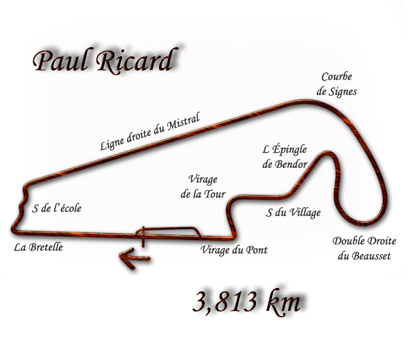 French Grand Prix - 1989 - 1990